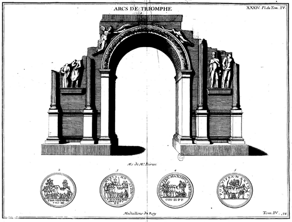 Engraving by Nicolas-Claude Fabri de Peiresc, showing the arch of Glanum in 1610; published in: Bernard de Montfaucon: L’Antiquité expliquée et représentée en figures. Supplementum of volume 4,1. Paris 1724, Plate 34 after page 78